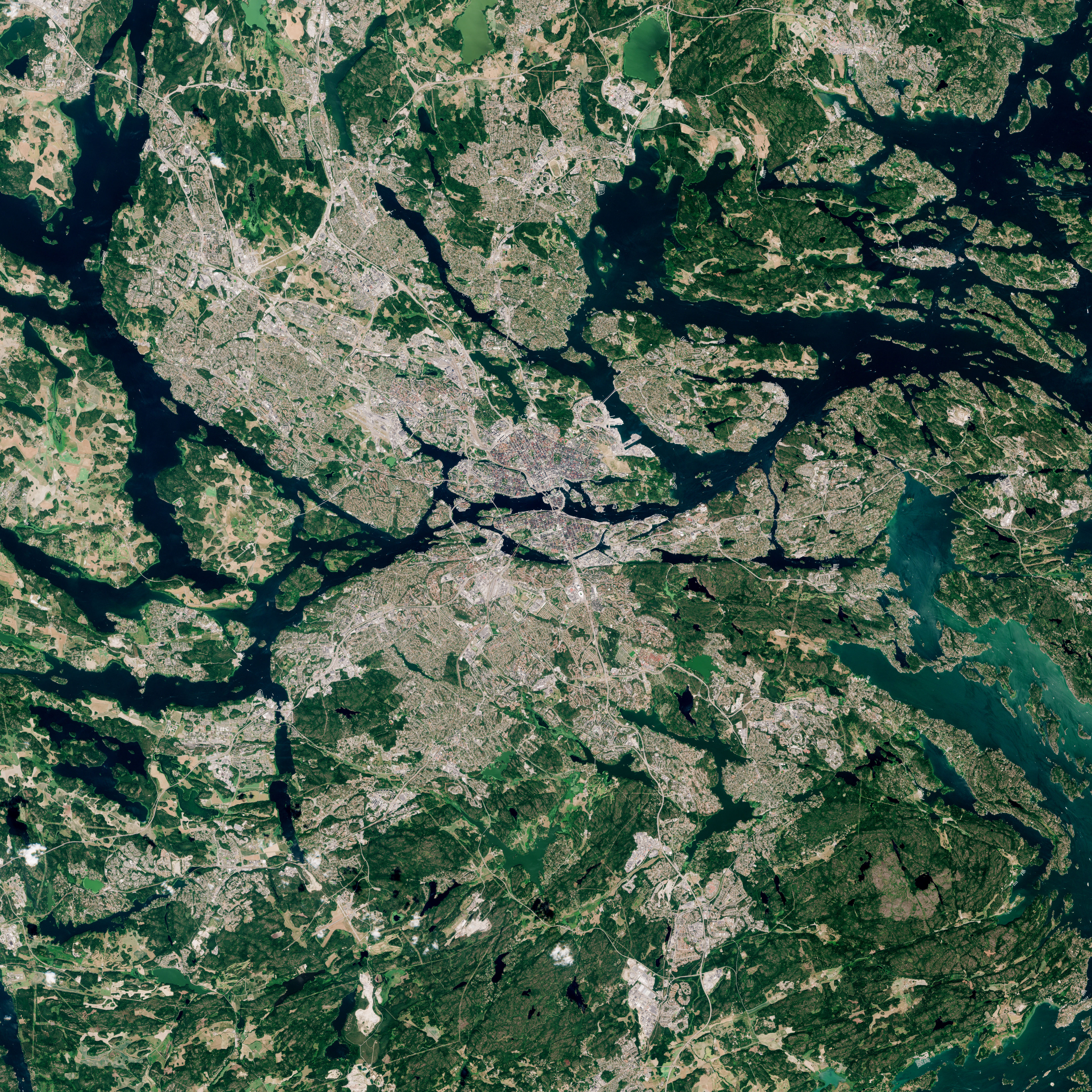 ate: 2018-07-16 Sensor: MSI on Sentinel-2B Resolution: 10m RGB Composites: True color, Band 4-3-2